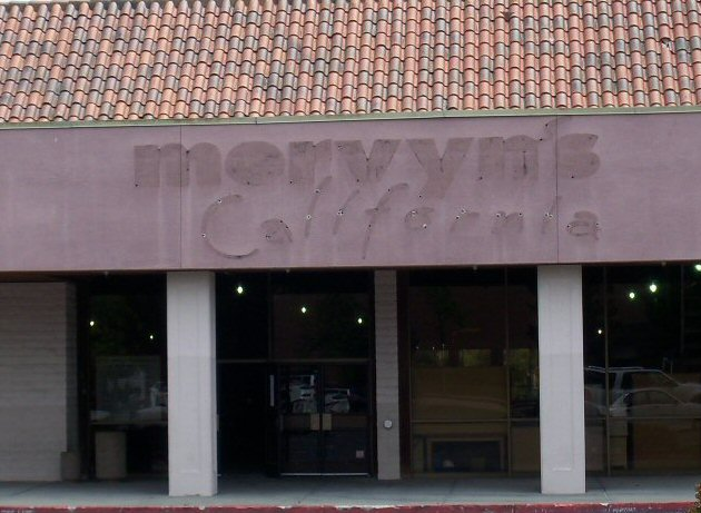 All that remains of the Mervyn's California logo at an old store location.